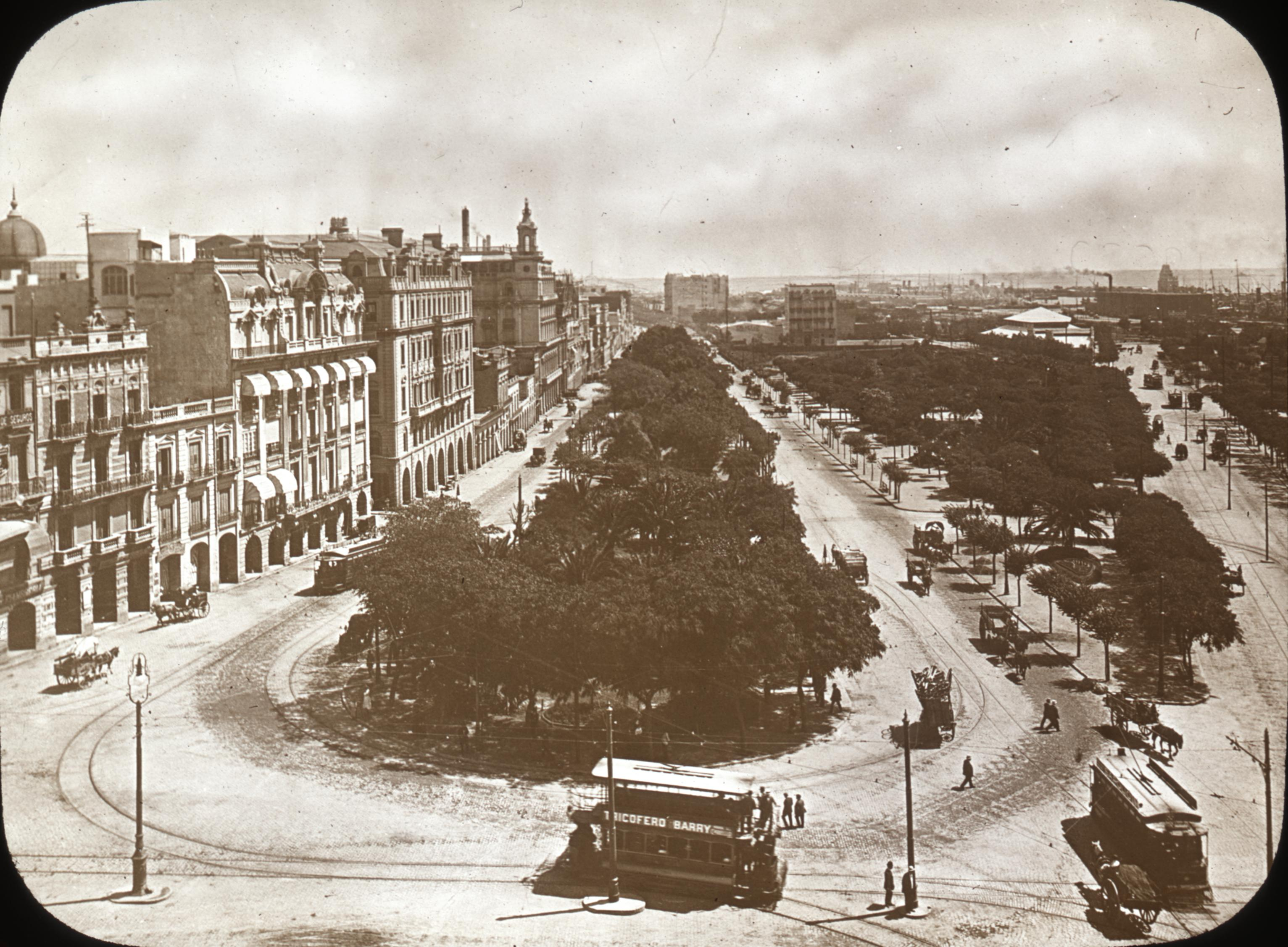 Electric trams circulating on Paseo Colón Avenue of Buenos Aires. Image description from historic lecture booklet says: "On leaving the docks and driving up into the city, the visitor is at once impressed with the fact that Buenos Aires is not so wholly wrapped up in the purely material as is our commercial center on Lack Michigan. It has broadened along more aesthetic lines and is cultivating the graces, not alone the sordid features, of cosmopolitanism. In the newer parts, the buildings and shaded boulevards and beautifully landscaped parks resemble rather those of Paris; although it is not behind our own big cites in public utilities."